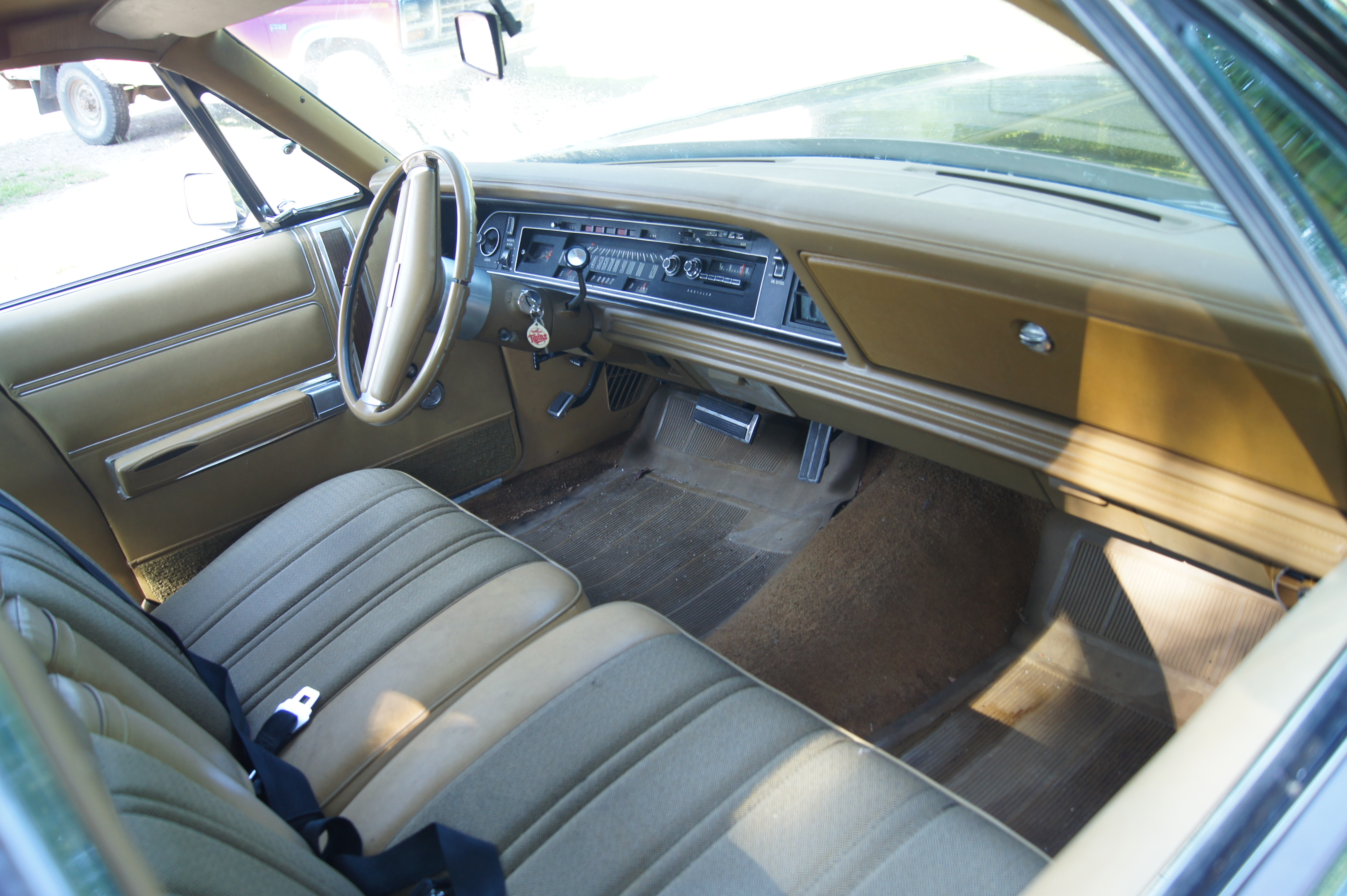 73 Chrysler Newport Custom